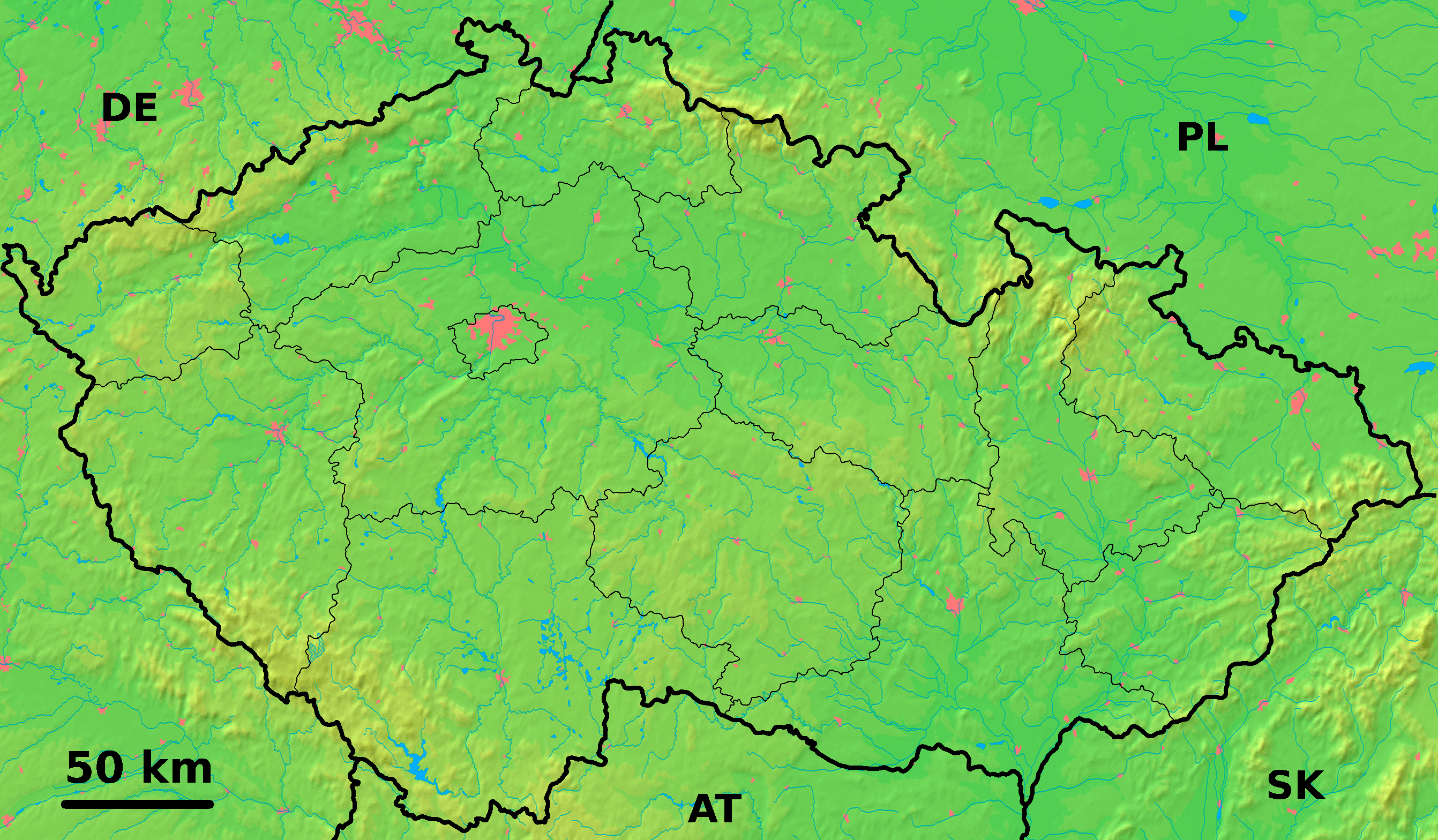 Map of the Czech Republic. Merging of Image:Czechia - outline map.svg and Image:Czechia - background map.png, calibrated at Template:Geobox locator Czechia